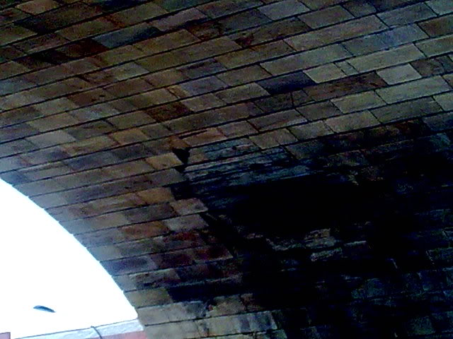 This image was taken at the Wicker Arches in Sheffield England. The patchwork was done to cover a hole left from Lufftwaffe bombing during the Sheffield Blitz in WW2.